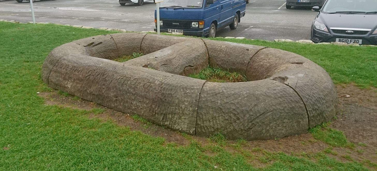 Part of a wooden sculpture by Daniel Sodhi-Miles, beside the Bude Canal in Cornwall. It is inscribed in Cornish and English with “Don’t be afraid of the sea, respect it.”